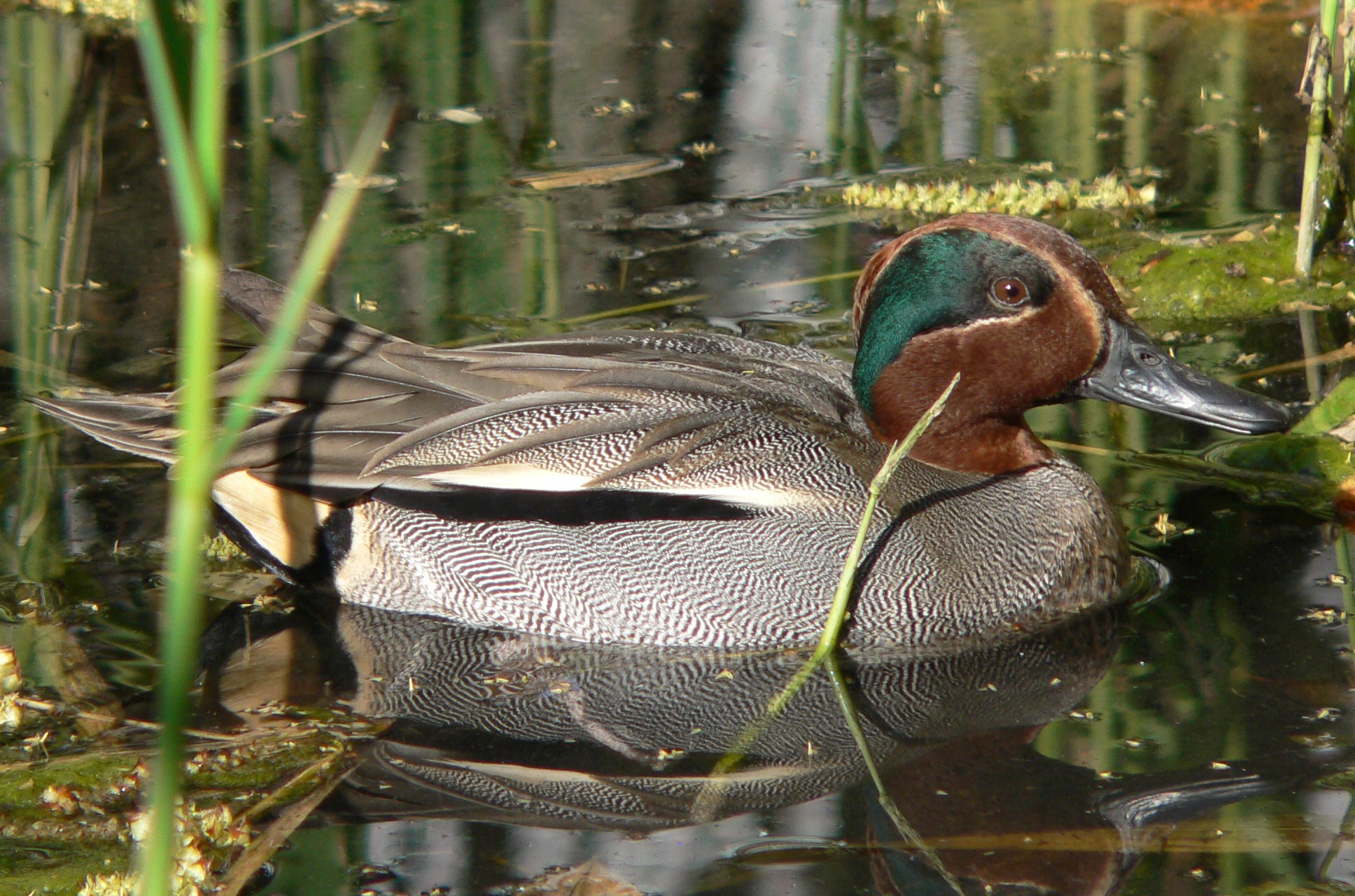 Anas crecca